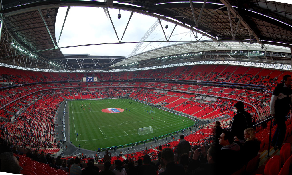 Wembley Panorama-England Vs Italy U21s, Wembley Stadium, North London Location: London.